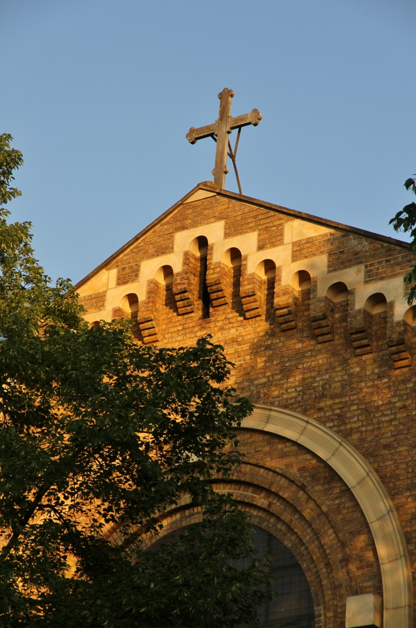 Part of the front of the Serbian Orthodox church of St Sava, Lancaster Road, London W11